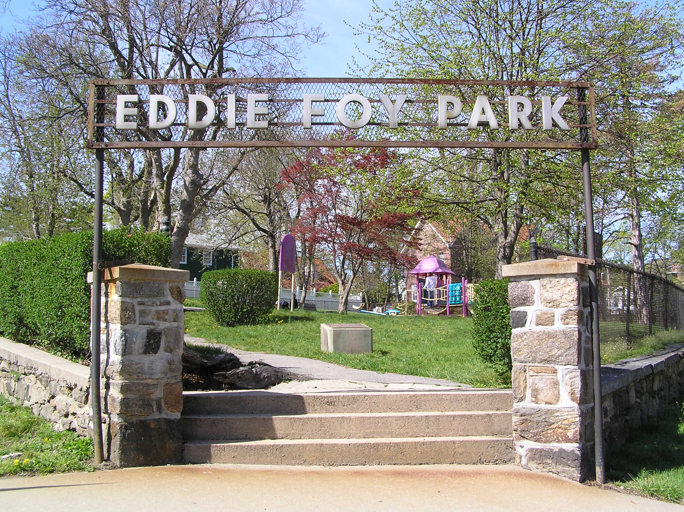 I took this photograph of Eddie Foy Park in New Rochelle, New York, on April 30, 2007. GNU Free Documentation License